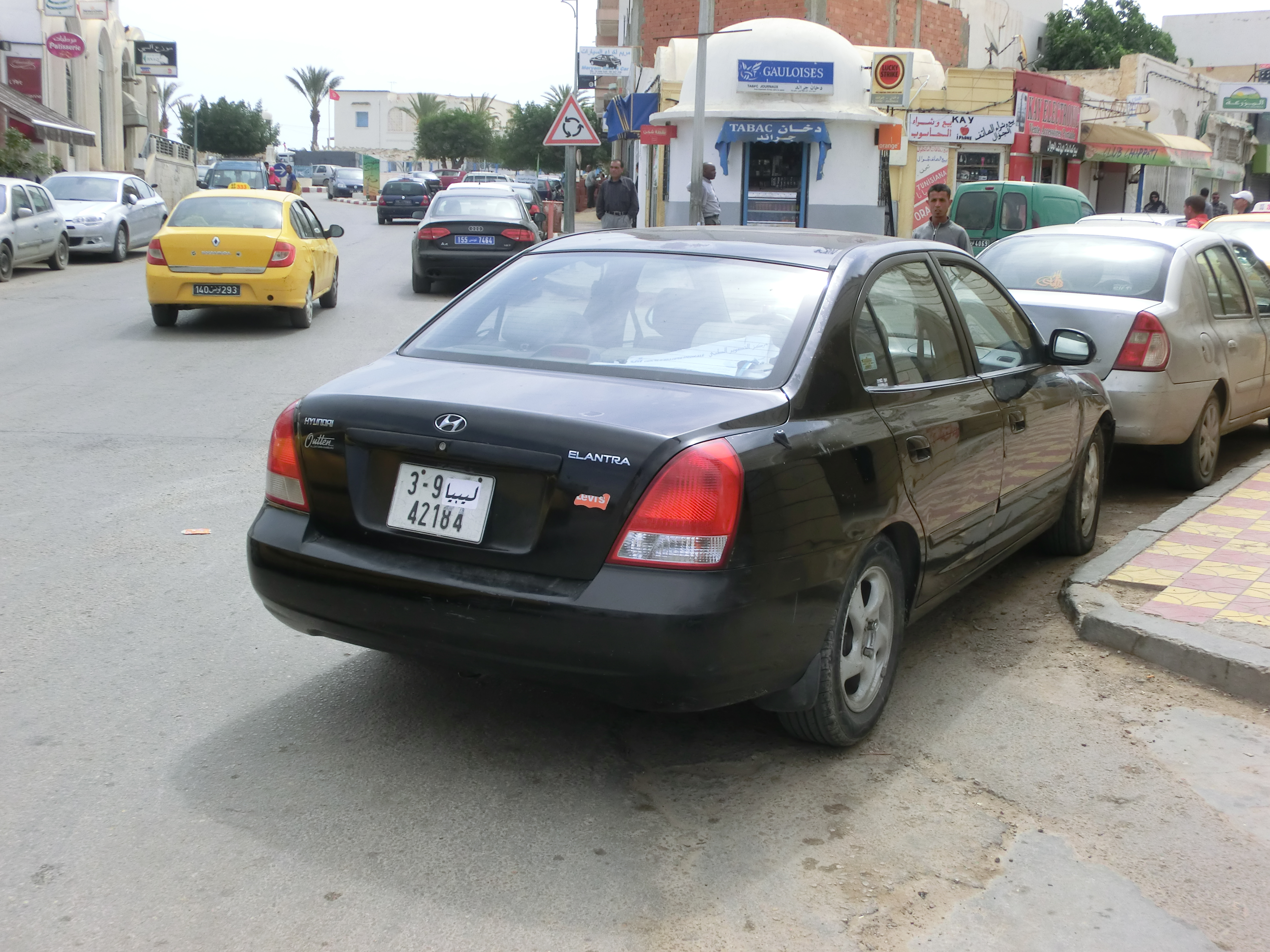 Libyan automobile with self-changed numberplate: From "Jamahiriya" to "Libya", seen in Zarzis, Tunisia